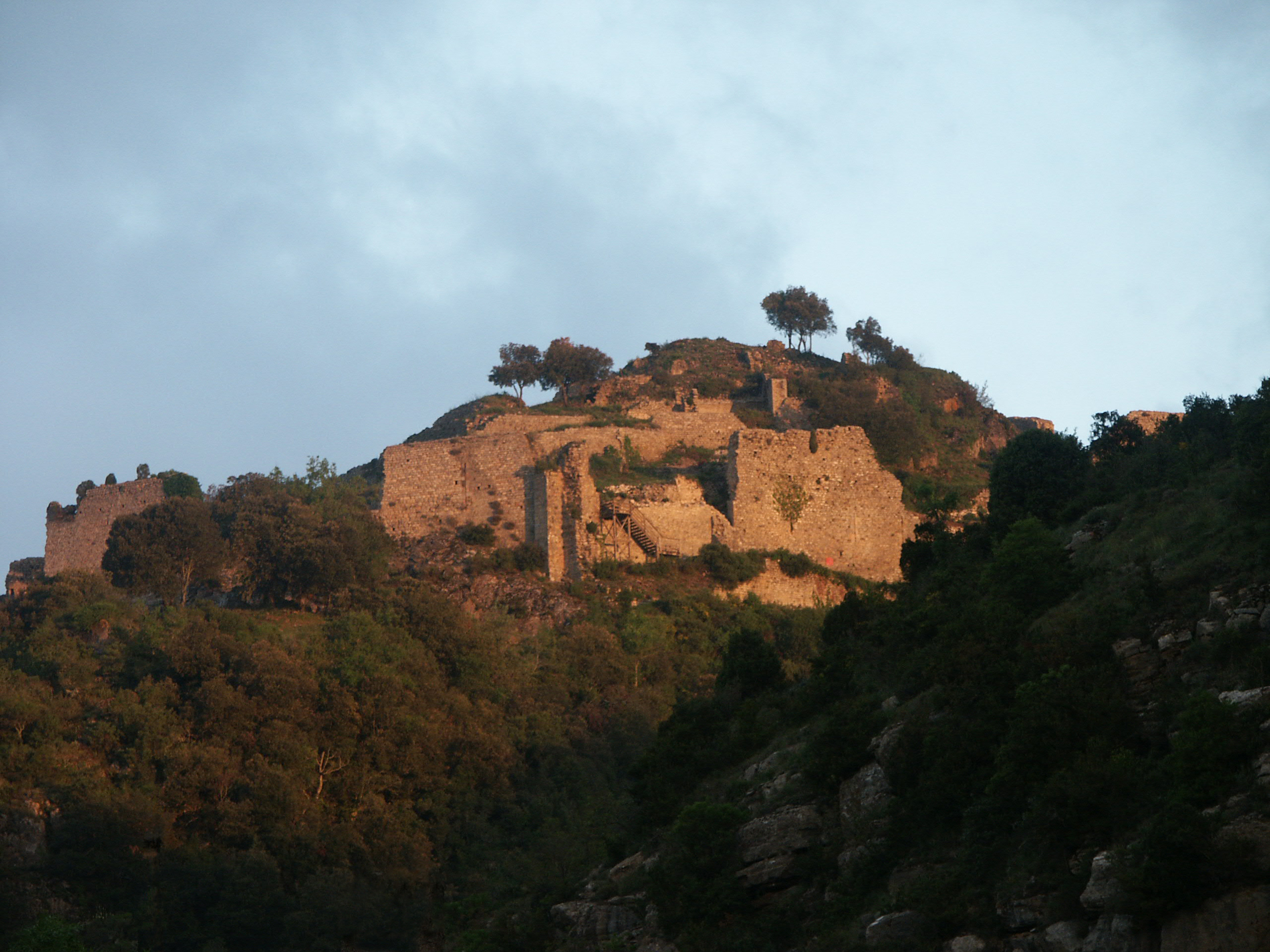 Cathar castle at Termes